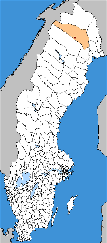 Location of Gällivare Municipality in Sweden